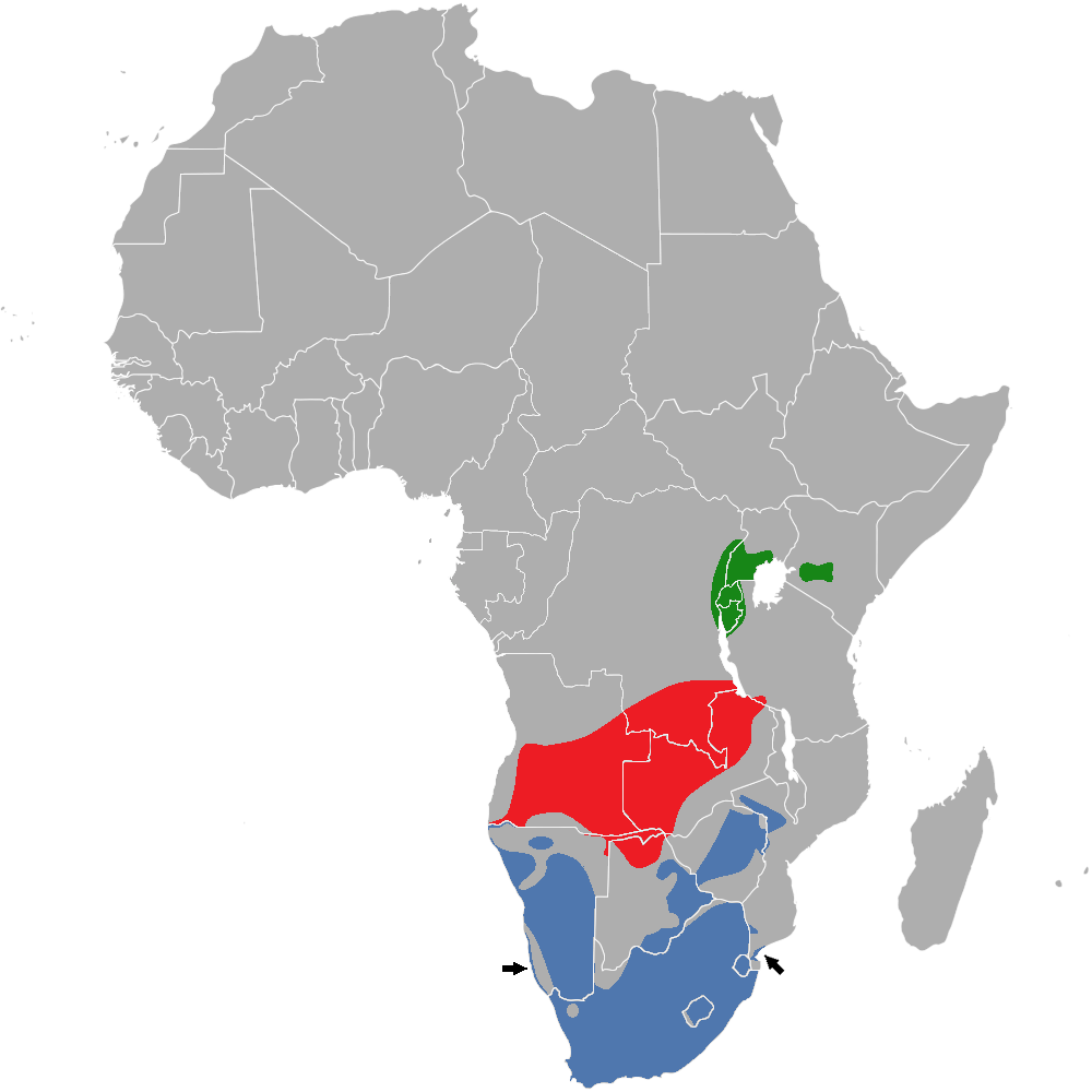 Range of the Cape wagtail,[1][2][3][4][5] showing the three subspecies in different colours. The two arrows highlight two fairly isolated coastal populations of the nominate subspecies, in southern Namibia and southern Mozambique respectively. The latter populations have been elevated to subspecies in the past, namely Motacilla capensis subsp. bradfieldi (A.Roberts, 1932), the type obtained at Swakopmund,[1] and Motacilla capensis subsp. beirensis (A.Roberts, 1932), type obtained at Zimbiti, Beira.[2] ↑ Harrison, J. A. , ed. (1997) The Atlas of Southern African birds: Vol.2 Passerines, Johannesburg: BirdLife South Africa, pp. 378–379 Retrieved on 14 March 2019. ISBN: 0-620-20730-2. ↑ Zimmerman, Dale A. (1999) Birds of Kenya and Northern Tanzania, Princeton University Press, pp. 505-506 ISBN: 0691010226. ↑ John Fanshawe (2004) Birds of East Africa: Kenya, Tanzania, Uganda, Rwanda, Burundi, Helm Field Guides, p. 298 ISBN: 0713673478. ↑ Chittenden, H. (2012) Roberts geographic variation of southern African birds, Cape Town: JVBBF, p. 232 ISBN: 978-1-920602-00-0. ↑ Tyler, S. (2019). Cape wagtail (Motacilla capensis). Handbook of the Birds of the World Alive. Lynx Edicions, Barcelona. Retrieved on 14 March 2019.